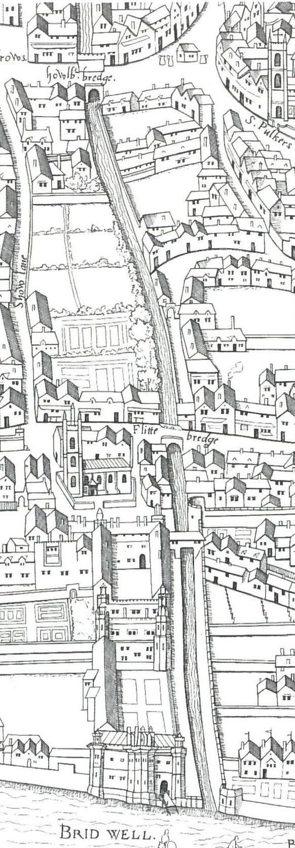 Detail from the "Copperplate" map of London, surveyed 1553-9, showing the southern course of the River Fleet from Holborn Bridge to the Thames.